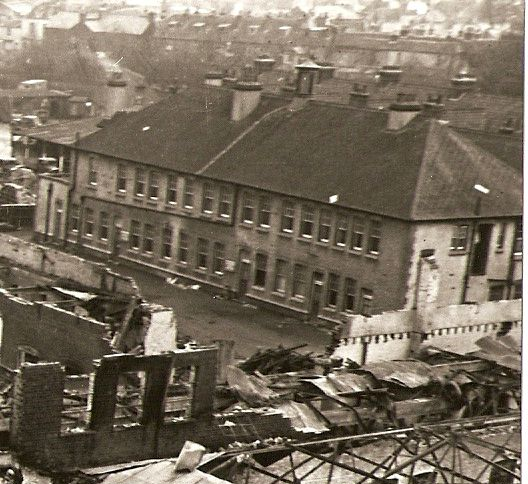 A small section of background detail from a photograph in the Barrett Collection, showing what is now the foyer and offices section of the Westgate Hall having survived the 1944 bombing of Canterbury in World War II. The main photo, from which this extract was taken, showed the bombed Barretts premises in the foreground. Full archive, library and online searches have been made to ascertain the name of the photographer, without success.